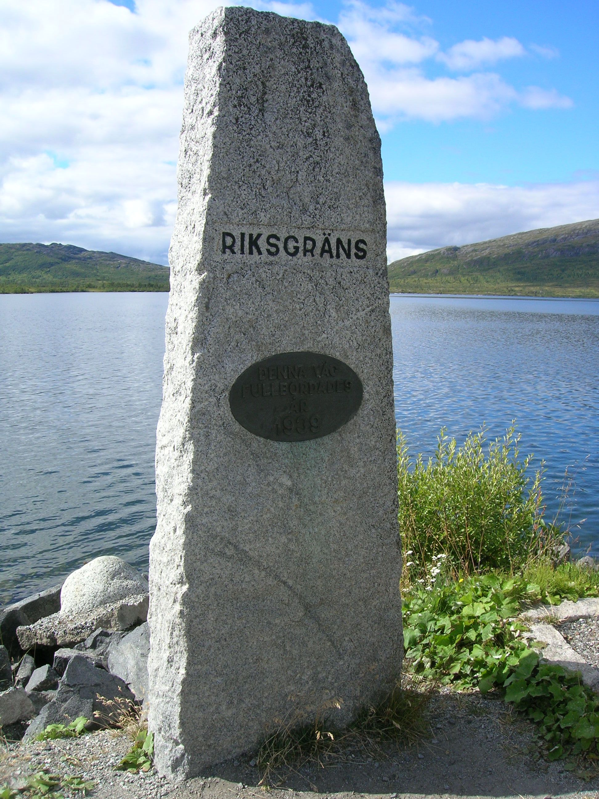 Border stone on the border between Norway and Sweden on European route E12. The inscription states that «This road was finished [in the] Year 1939» Photo on 10 August, 2008 with a Nikon Coolpix 5600 5,1 Megapixel camera.